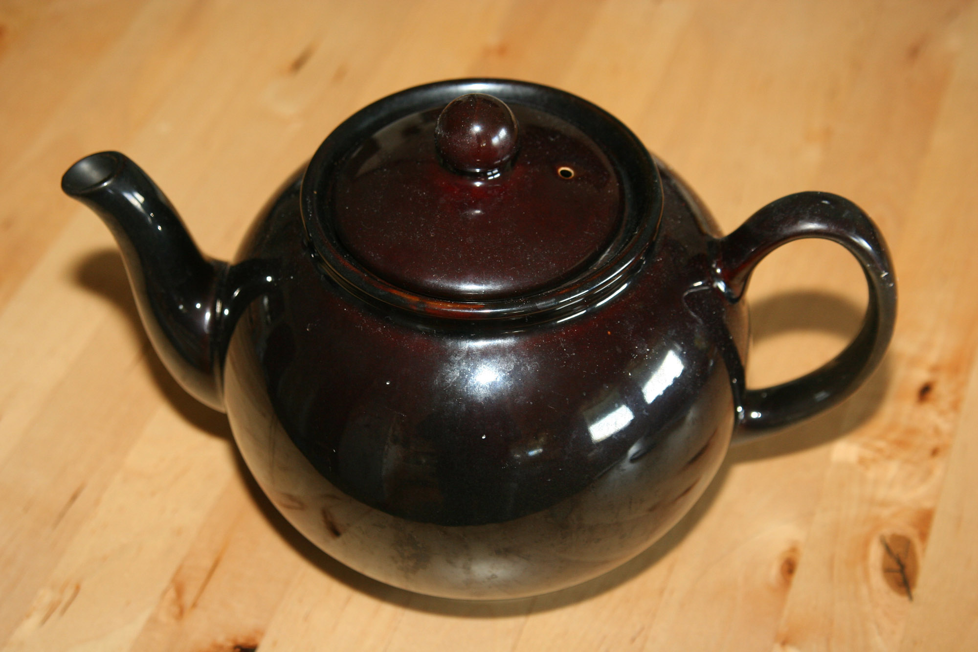 English teapot.